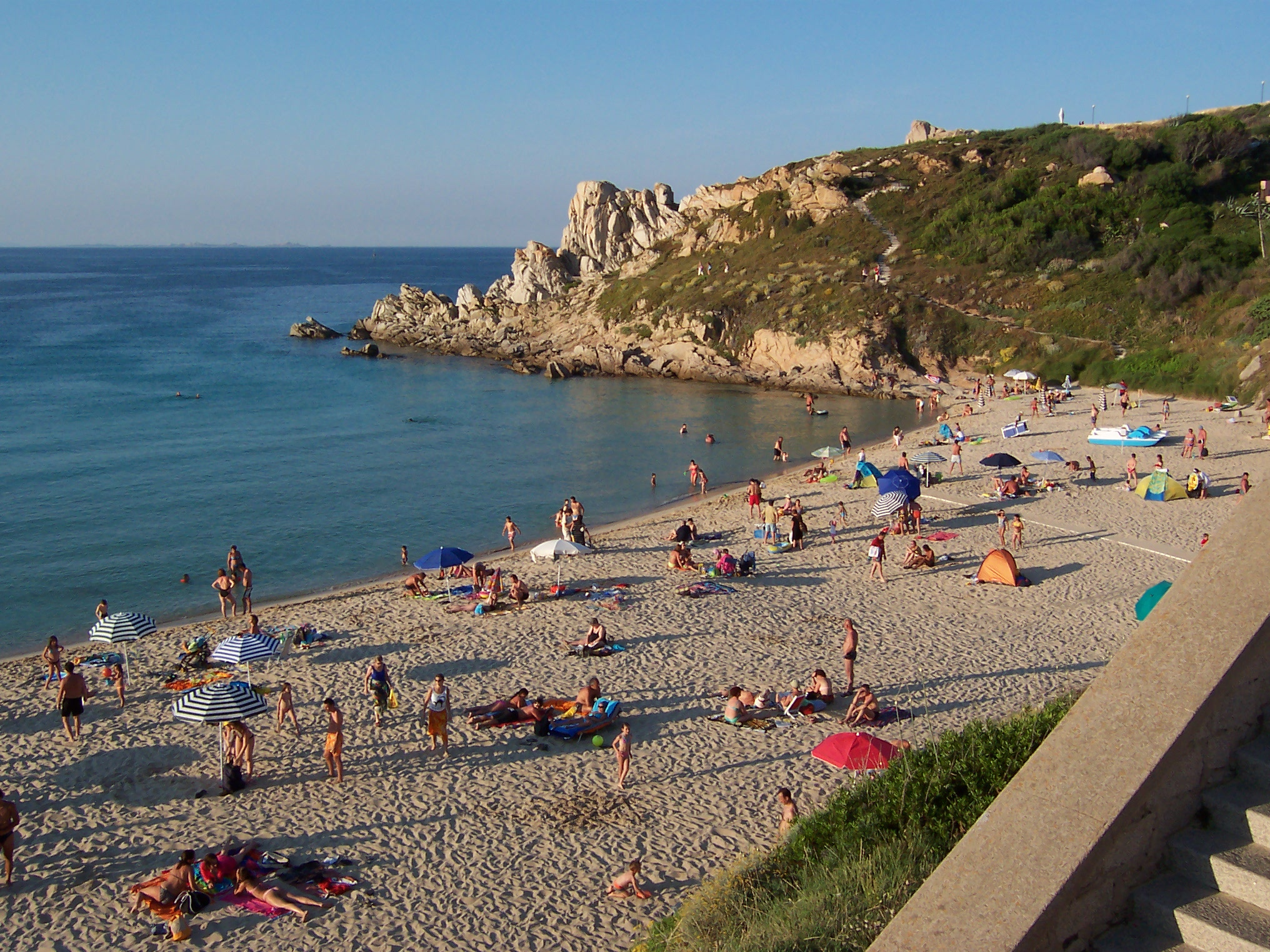 Rena Bianca Beach